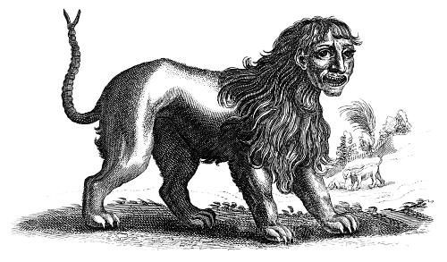 "The Manticore, or Martigora was described by Pliny and Aristotle as a creature with the face and ears of a human, with grey eyes and a red body; a tail with a sting like that of a scorpion, and being the size of a lion, and with a lion’s paws, a triple row of teeth and an appetite for human flesh."